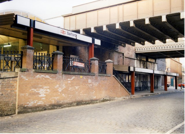 Salford Central station building 1989 Not yet rebranded, Salford station was normally a ghost station outside Monday to Friday rush hours, being rather marooned in a sea of urban dereliction. Quite a lot has changed in this part of Salford since 1989.